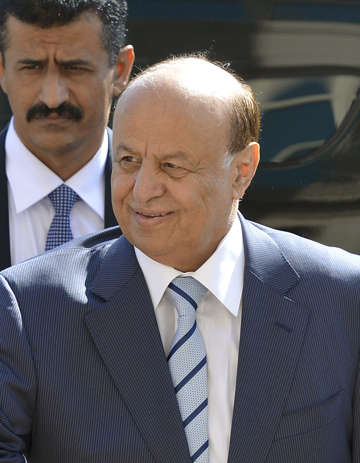 Yemeni President Abd Rabuh Mansur Hadi at the Pentagon in Arlington, Va., July 30, 2013.